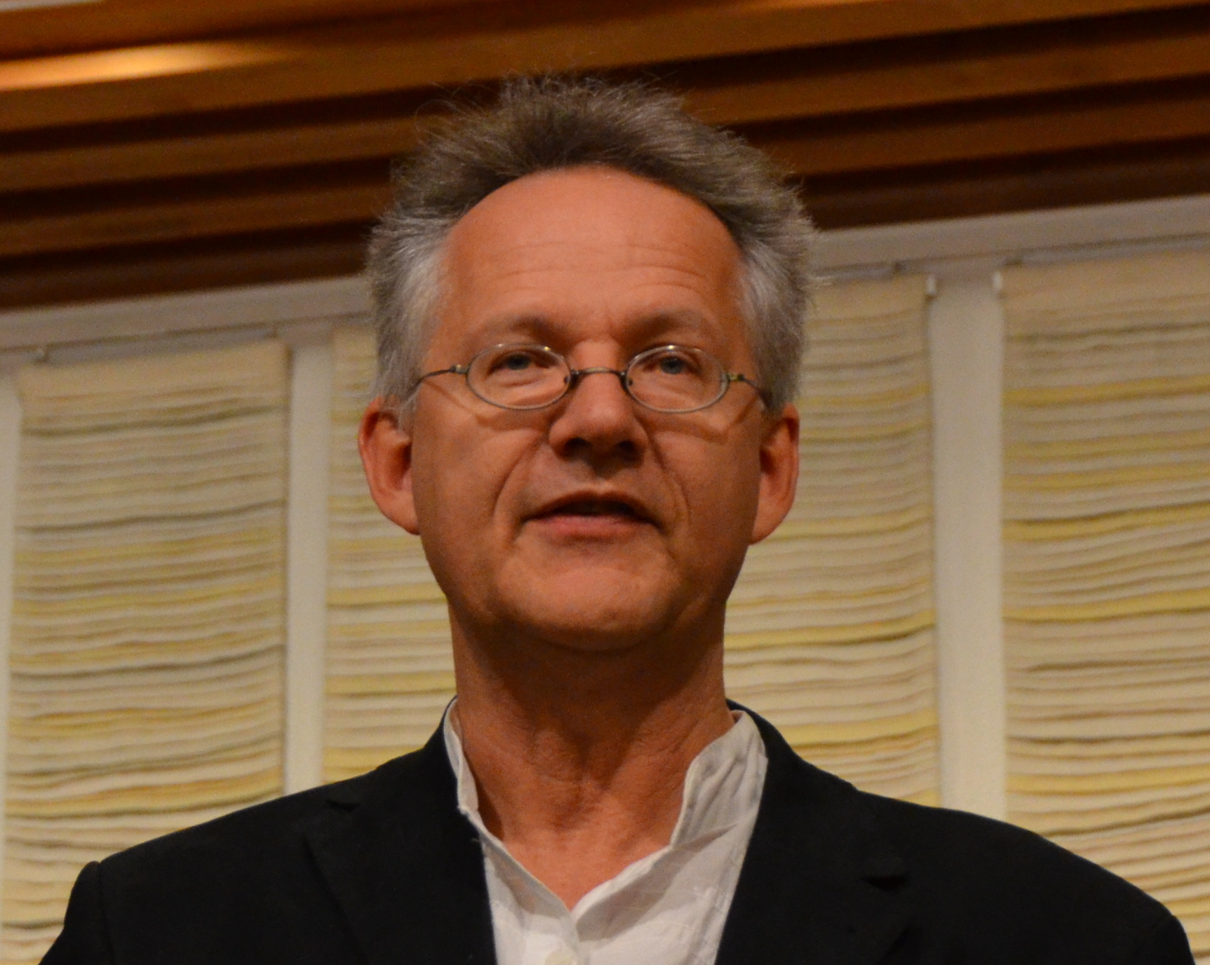 Tilman Hoppstock, a musicologist, classical guitarist and classical cellist from Germany.